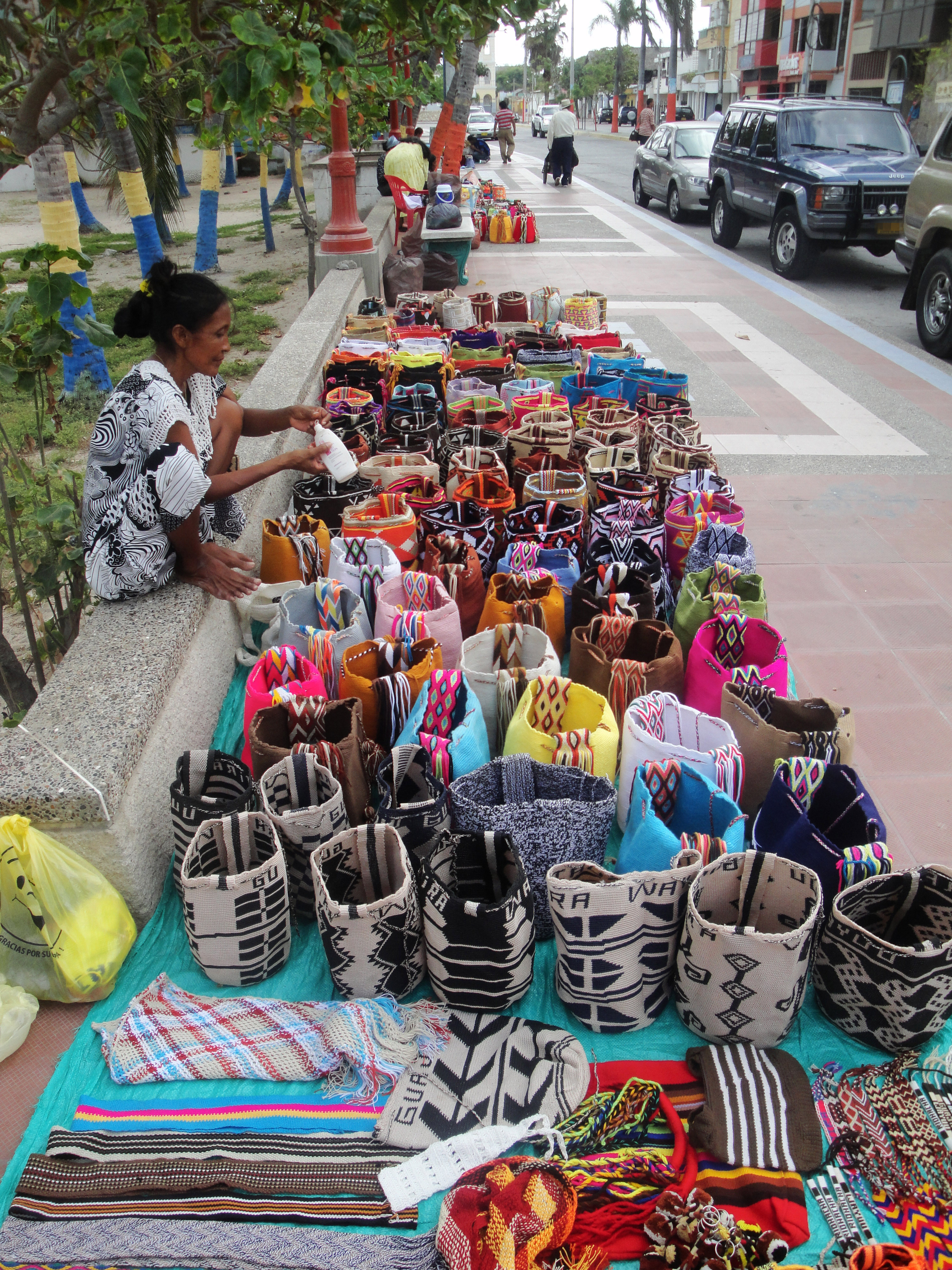 Colombian craft on Avenida Primera